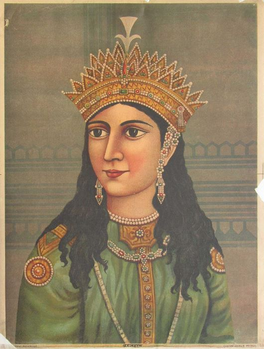 Noor Jahan Chitrashala Press Product Code: 12E-14 Condition: Good Availability: Sold Size: 14 x 20 Inches Medium: Lithographic Print Year: 1900's